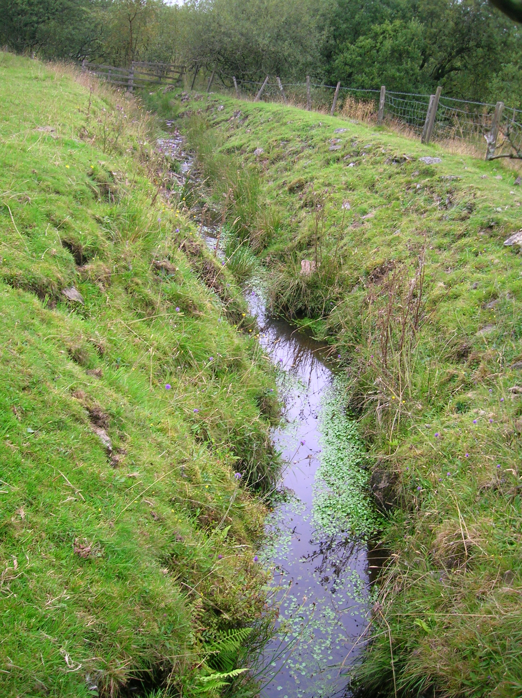 The Cadgerford Burn, outflow of The Lochs Loch, Beith, North Ayrshire, Scotland